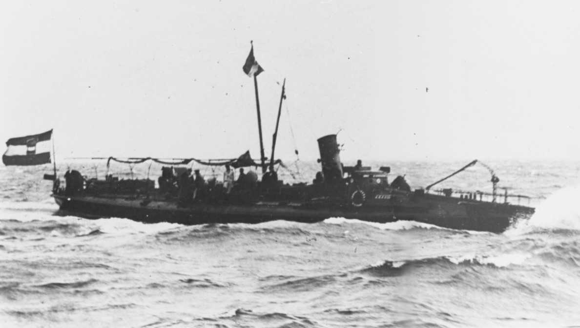 A black and white photograph of the Austro-Hungarian torpedo boat No. 38 underway